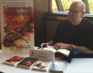 Author C. Dean Andersson signs books at FenCon in Dallas, Texas, September 2012 (photographed by Christopher Fulbright). This image is intended for use with the article about C. Dean Andersson at the following URL